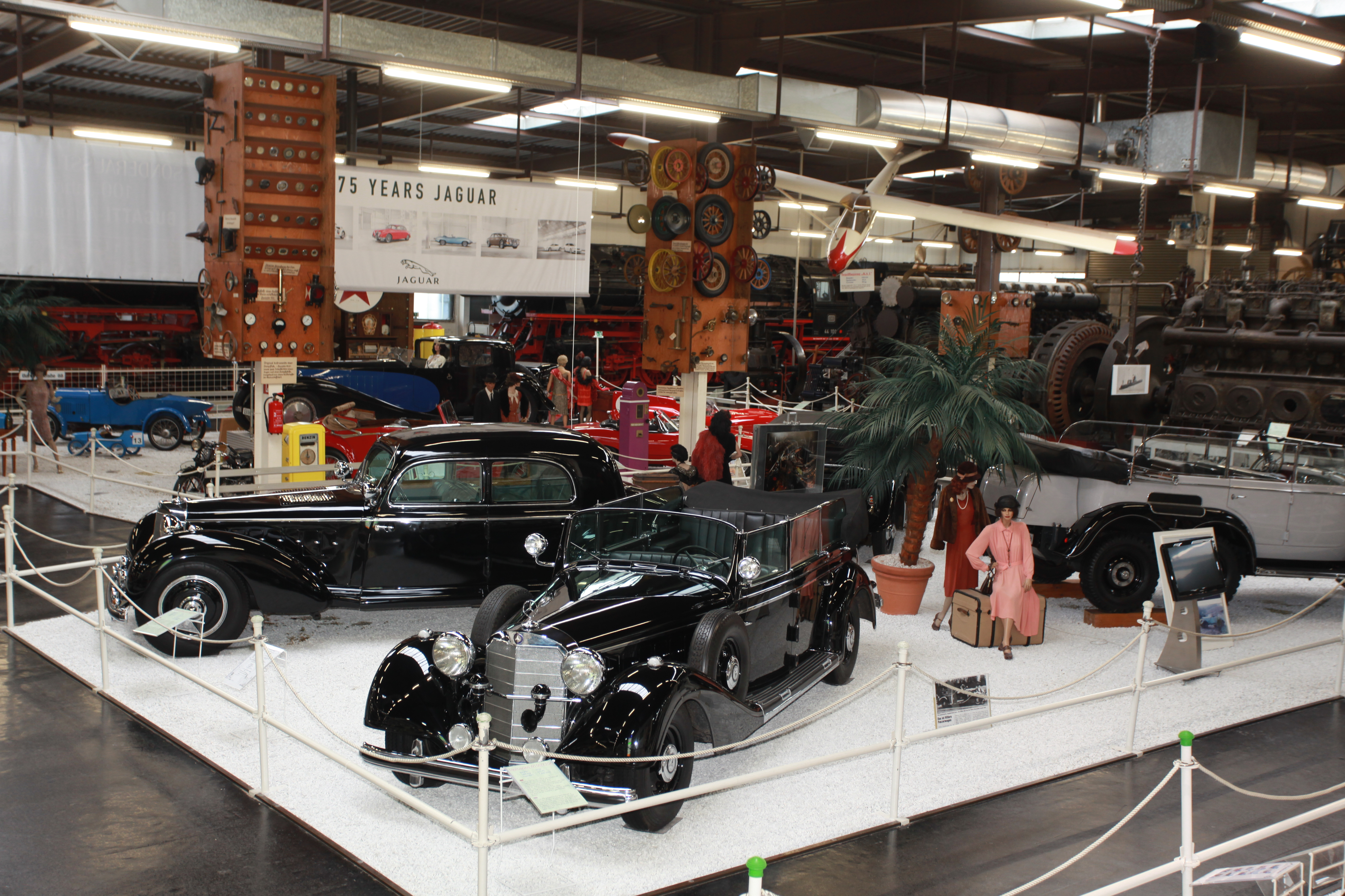 Location: Photo: Konrad Lagger, Salzburg